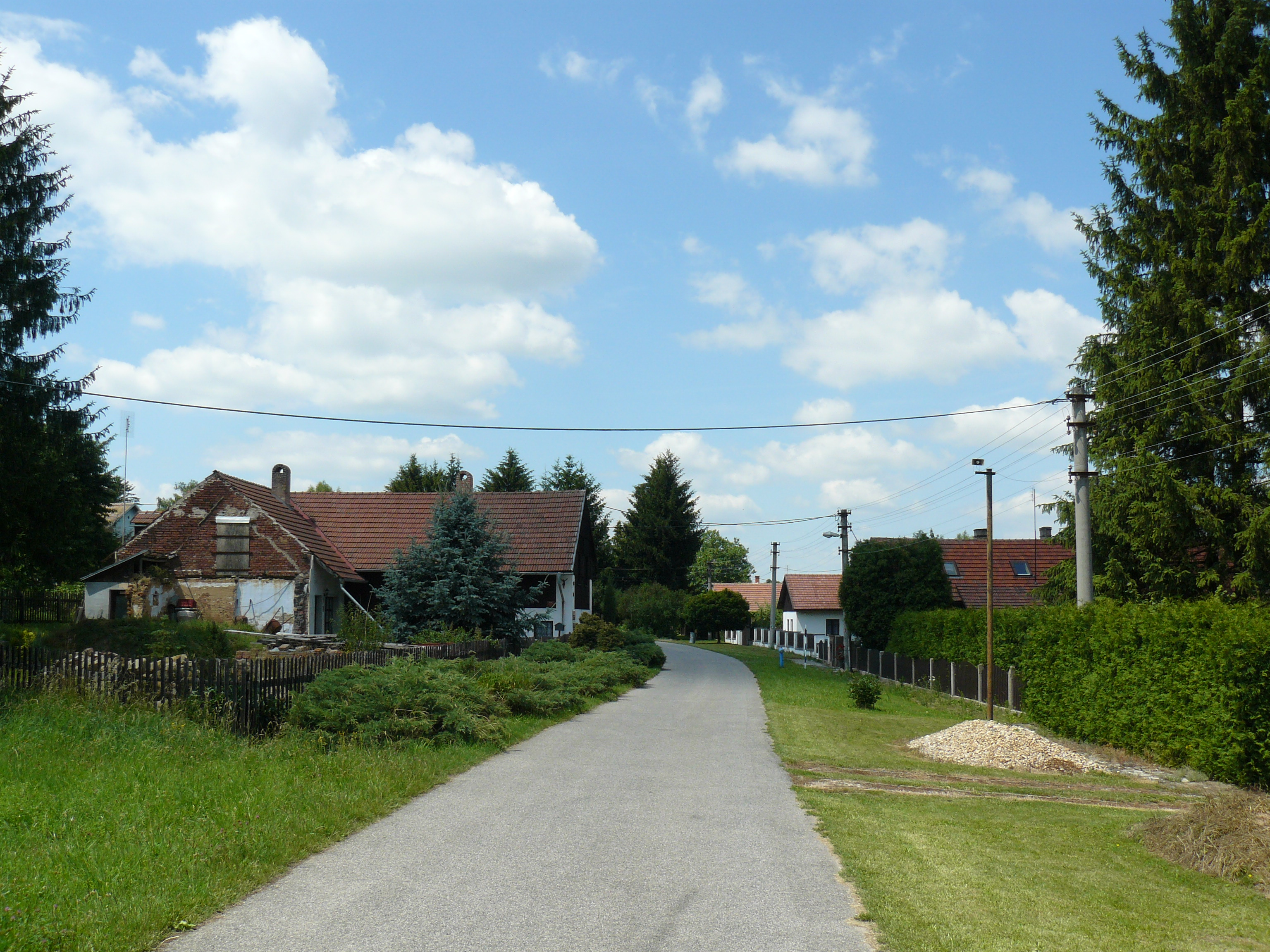 Sběř - village in Czech Republic